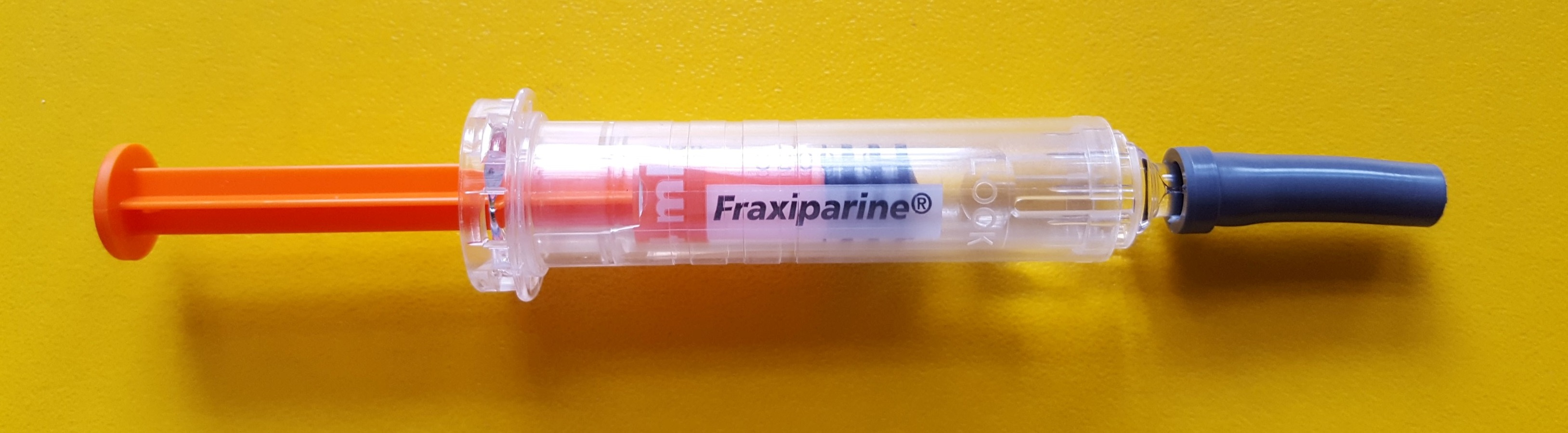 Fraxiparine 0,4ml prefilled syringe